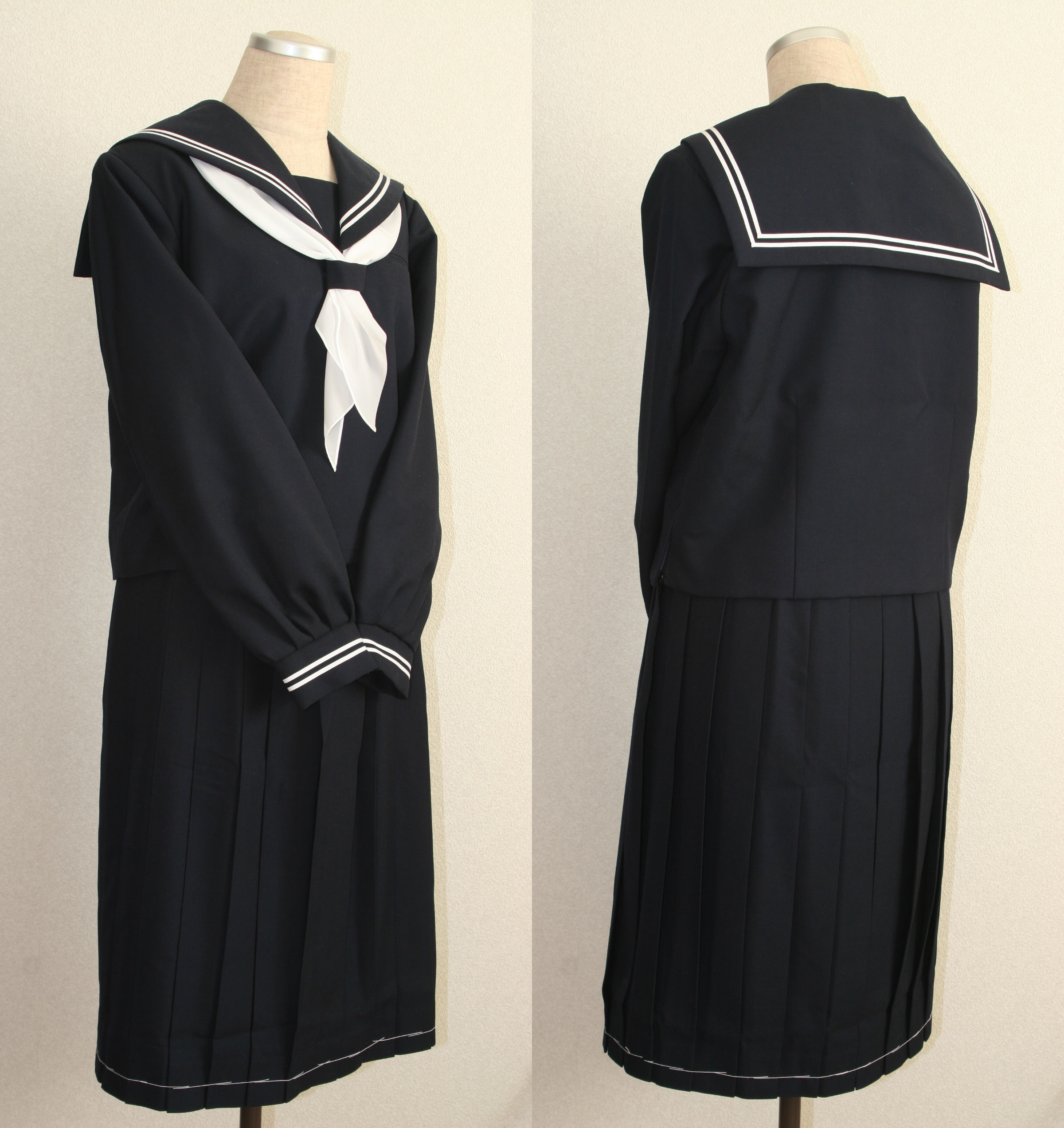 Sailor-fuku (Japanese school uniform for girls) for winter.